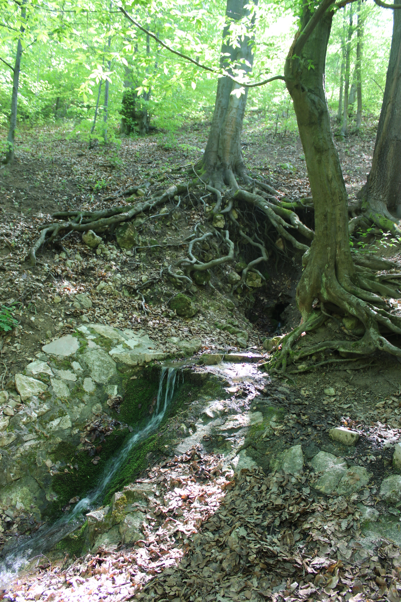 Type of a karst spring.